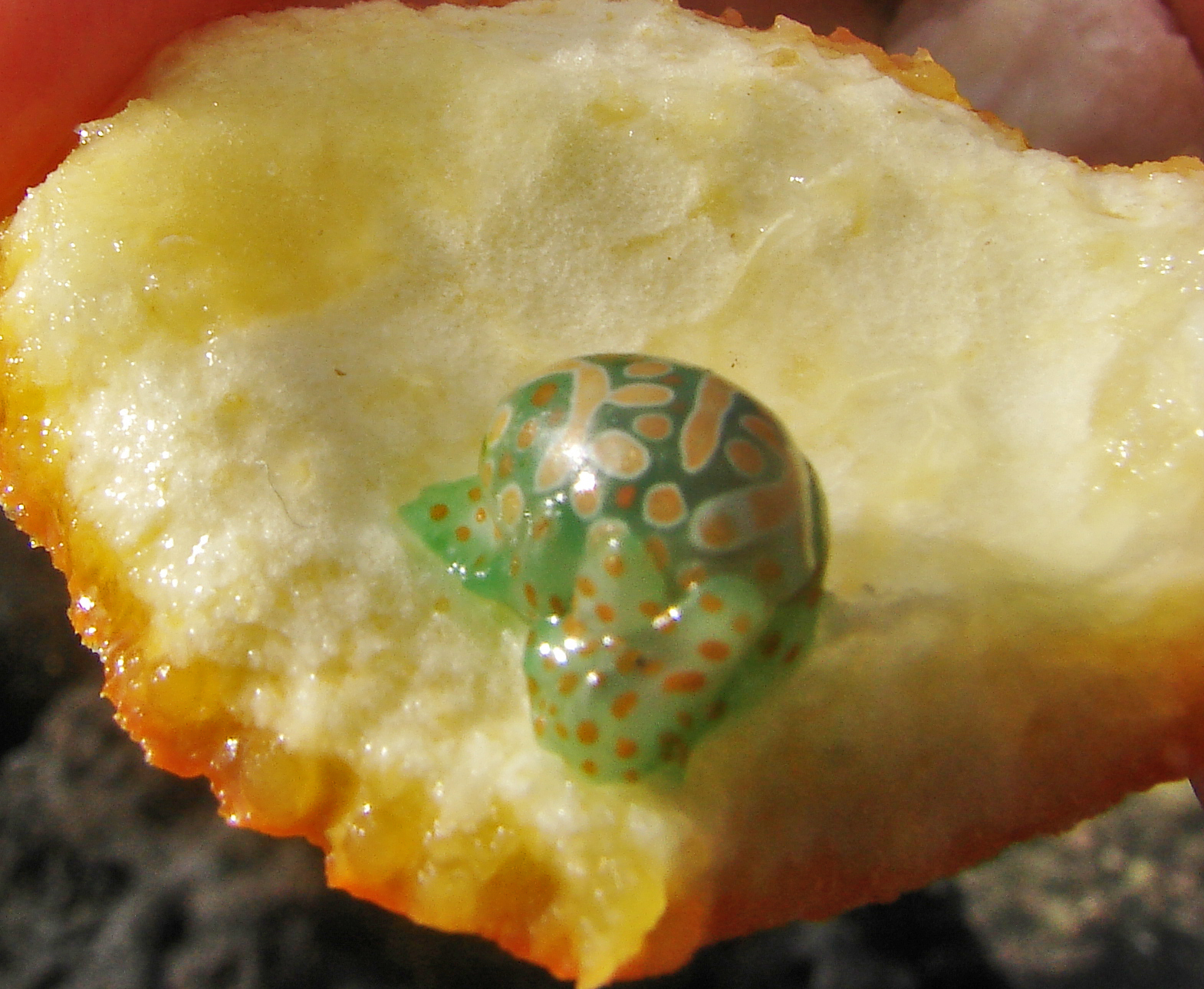 Taken in 2007 at Sandy Beach, on Oahu's East coast. Orange peel for scale.